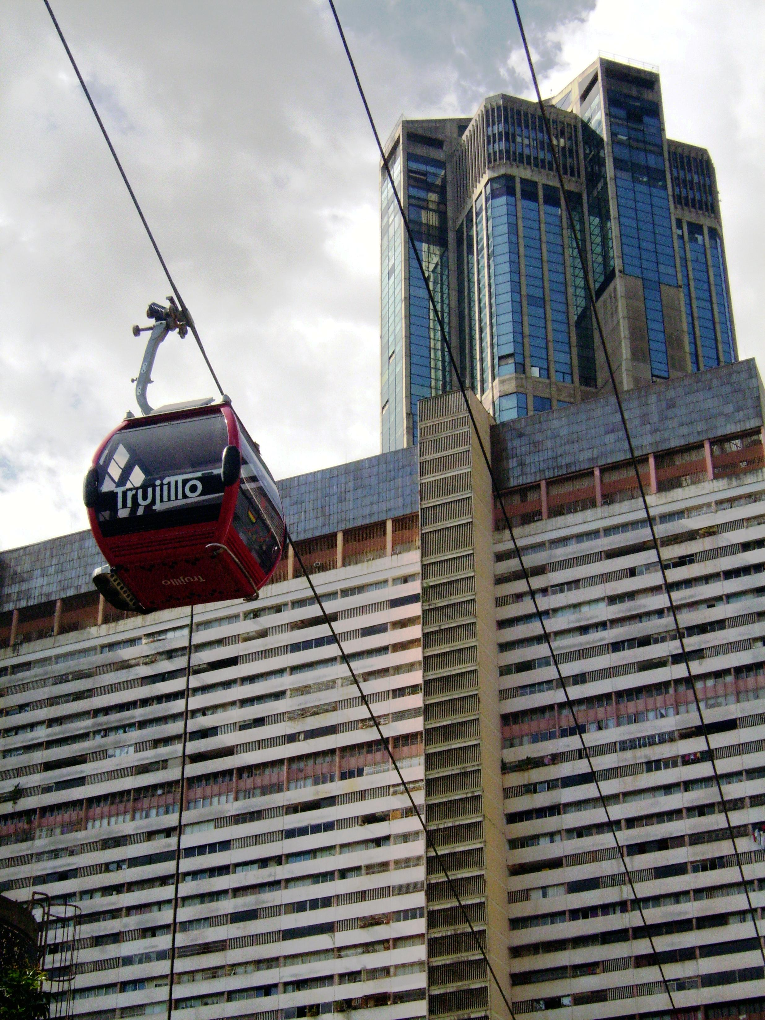 Cable Caracas Metro, cable car system